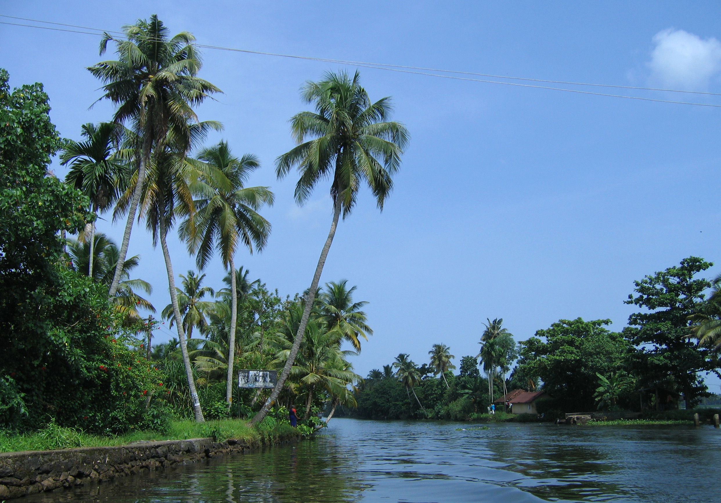 Scenes fom Vembanad lake en route Alappuzha Kottayam, ആലപ്പുഴയില്‍ നിന്ന് കോട്ടയത്തിനു പോവുംപോഴുള്ള വേമ്പനാട്ടുകായലിലെ കാഴ്ച്ചകള്‍